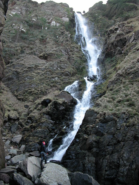 Hollowbrook Waterfall. Exmoor Probably the highest waterfall on Exmoor.